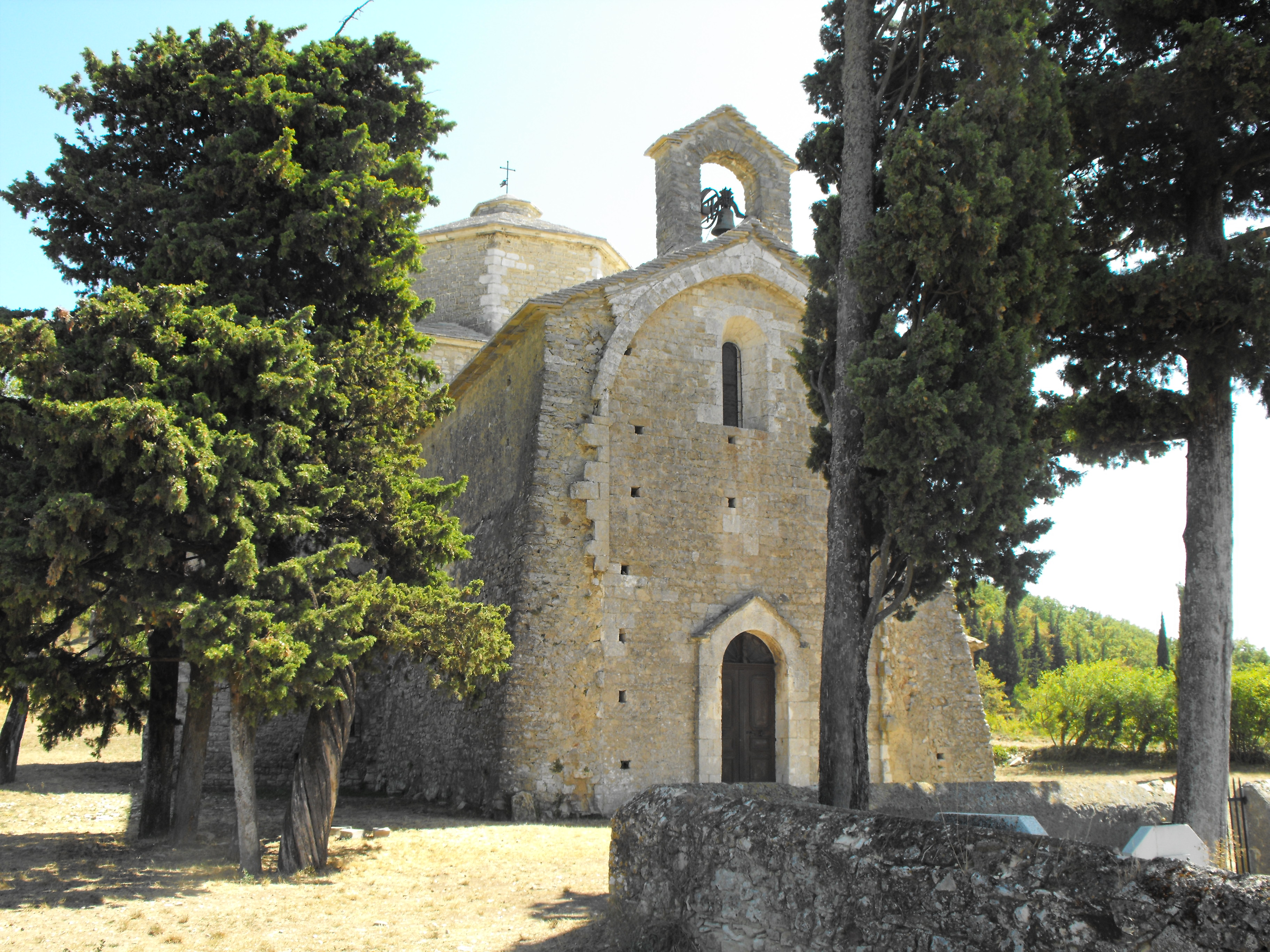 Church Larnas.